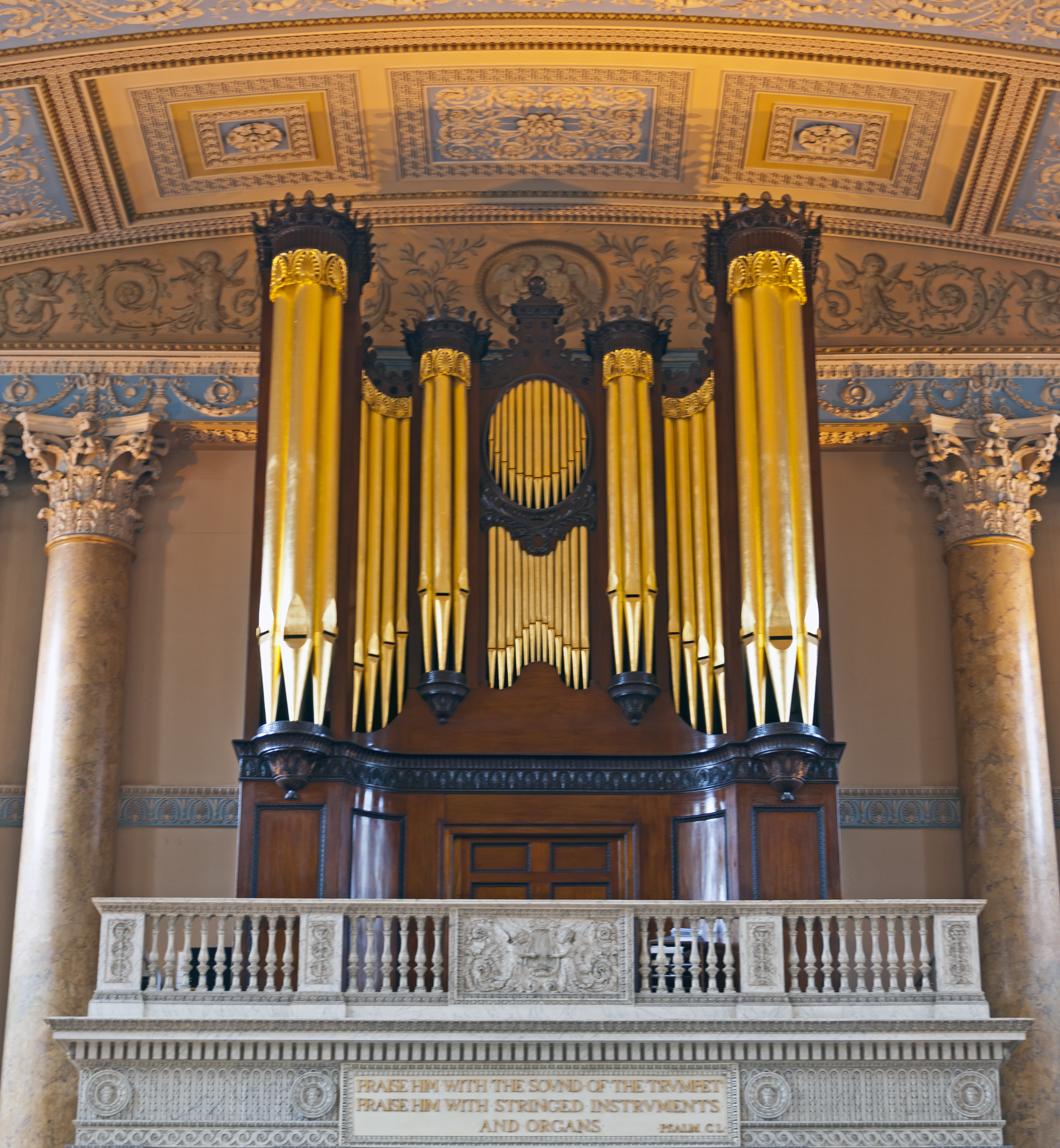 Pipe organ at chapel of Greenwich Hospital, London